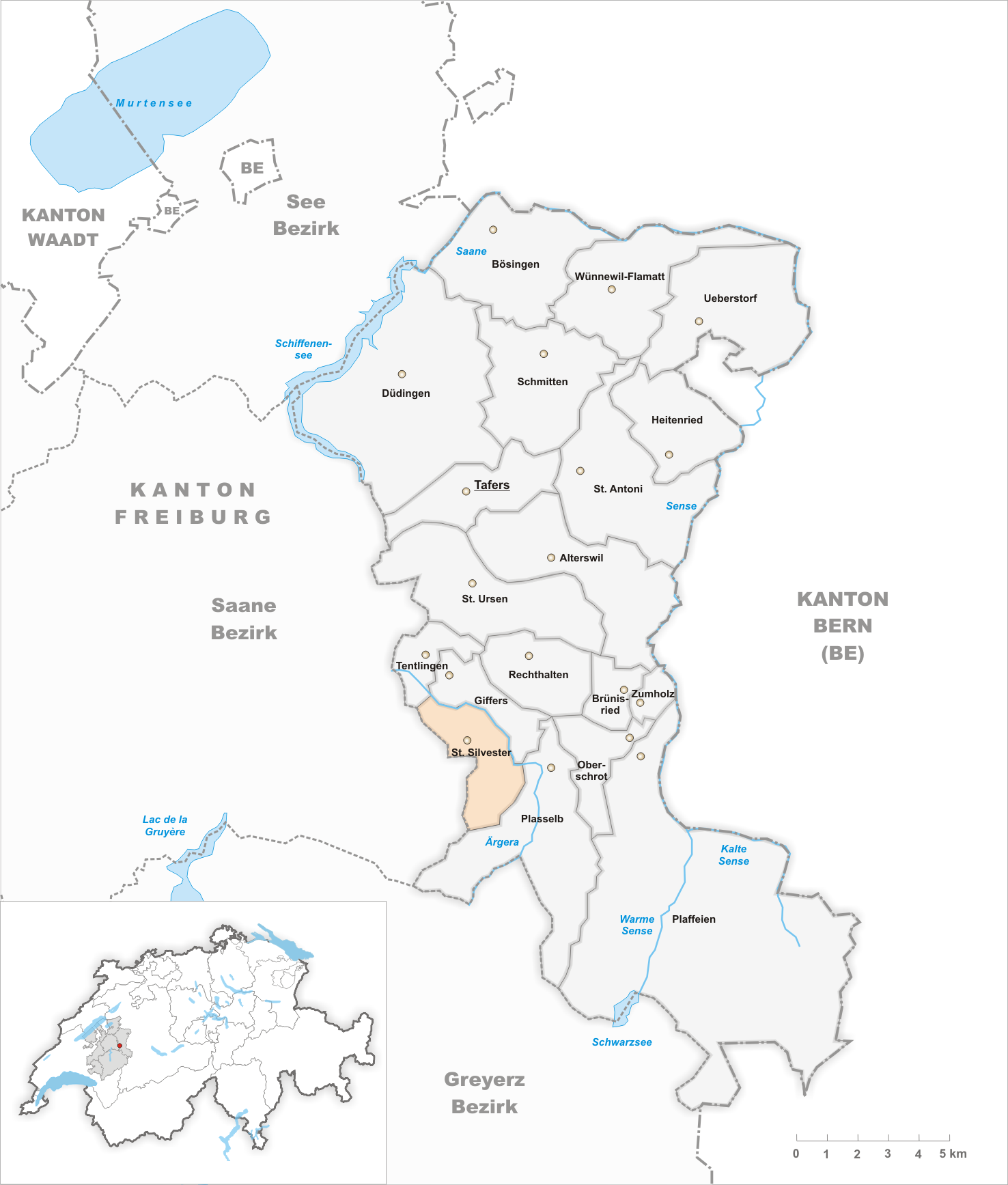 Municipality St. Silvester